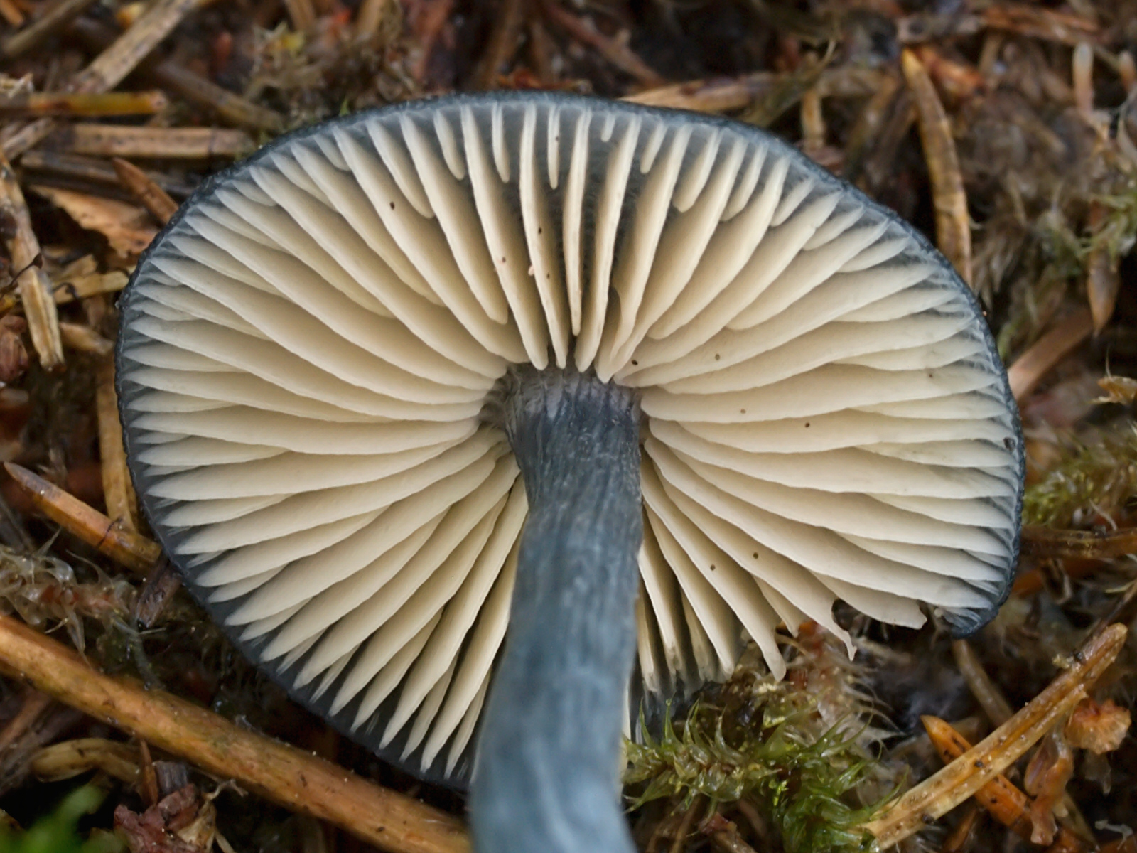 Entoloma nitidum